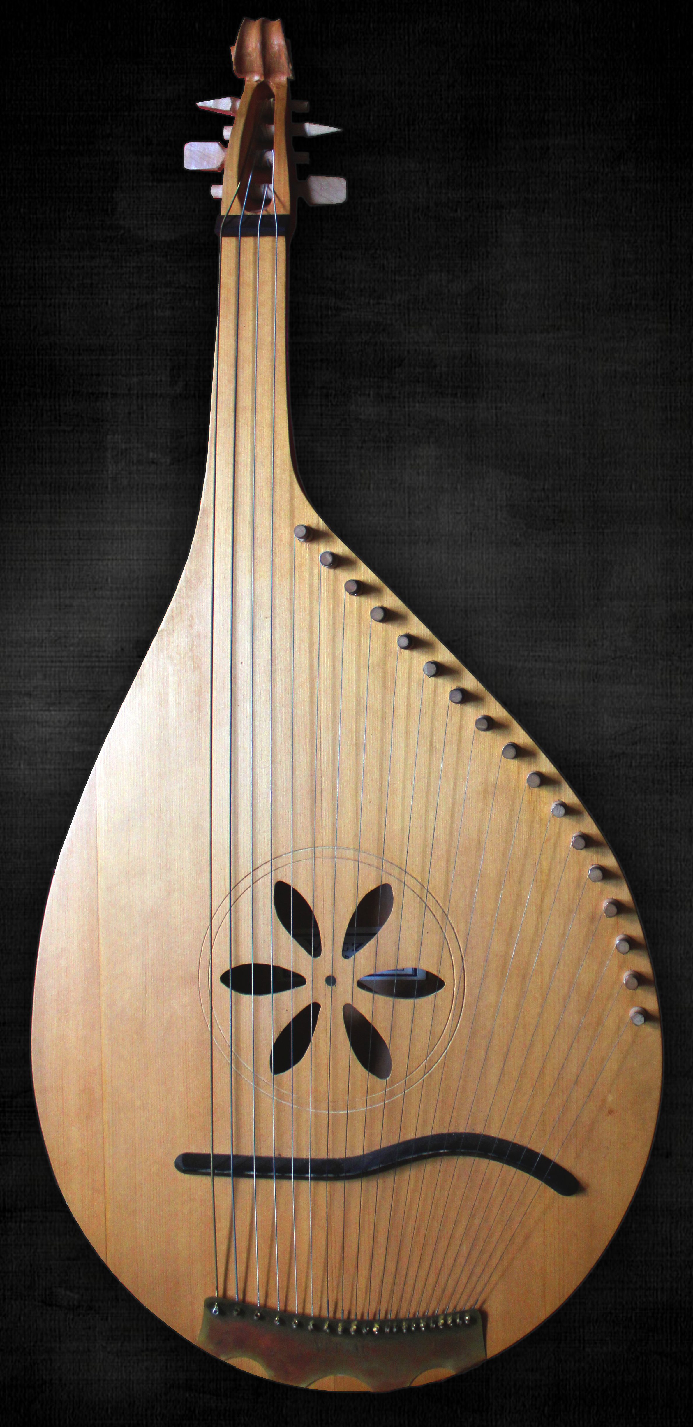 A reproduction of an old-world style bandura made in Toronto by William Vetzal.